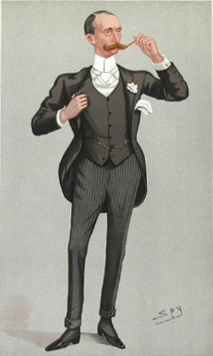 Caricature of Mr RT Hermon-Hodge MA JP MP. Caption read "Accrington".